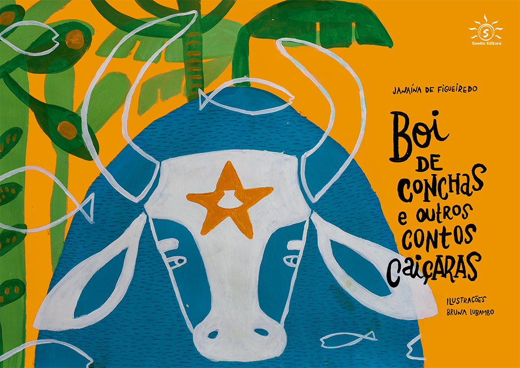 Capa do livro "Boi de Conchas e outros contos caiçaras", texto de Janaína Figueiredo, ilustrações de Bruna Lubambo. Ed. Sowilo.